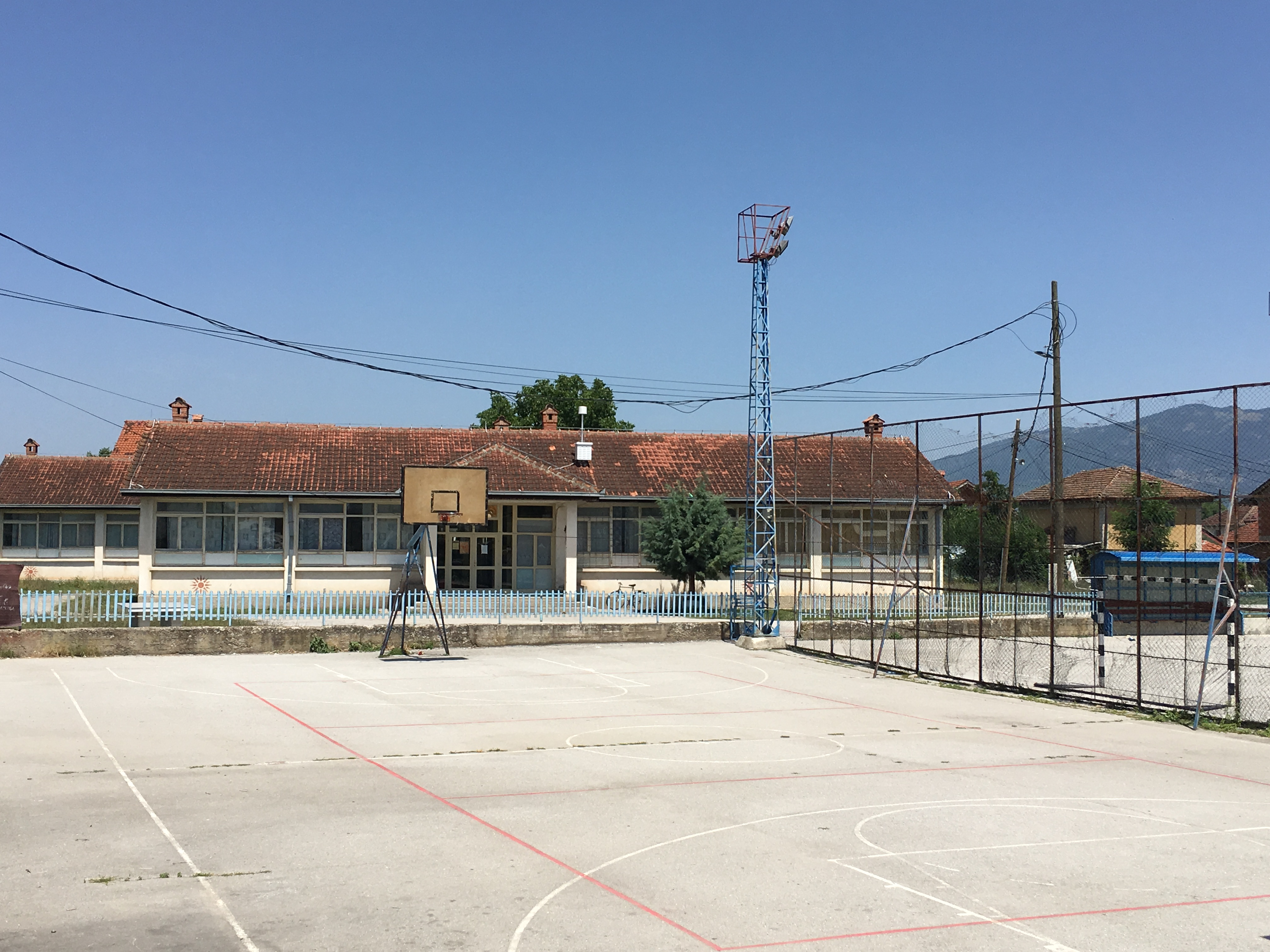 Josip Broz Tito Primary school in the village of Vranište